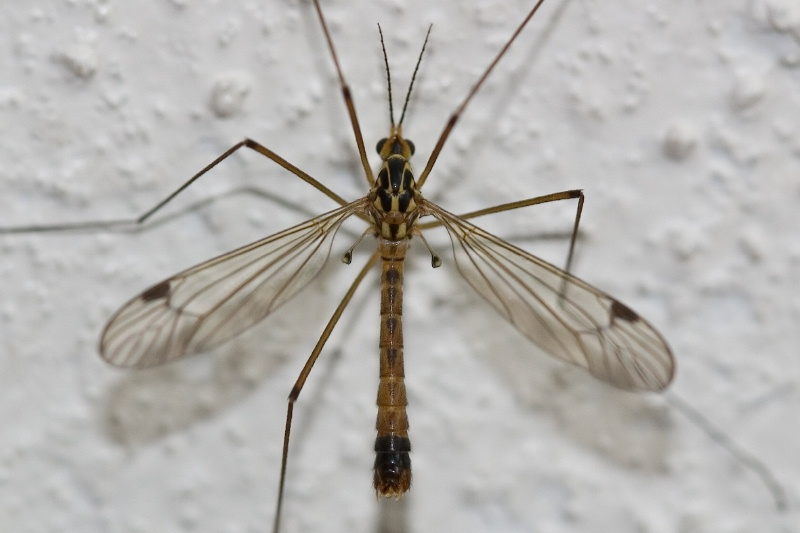 Nephrotoma guestfalica, male. Location: The Netherlands - Julianadorp - Nieuwe wijken